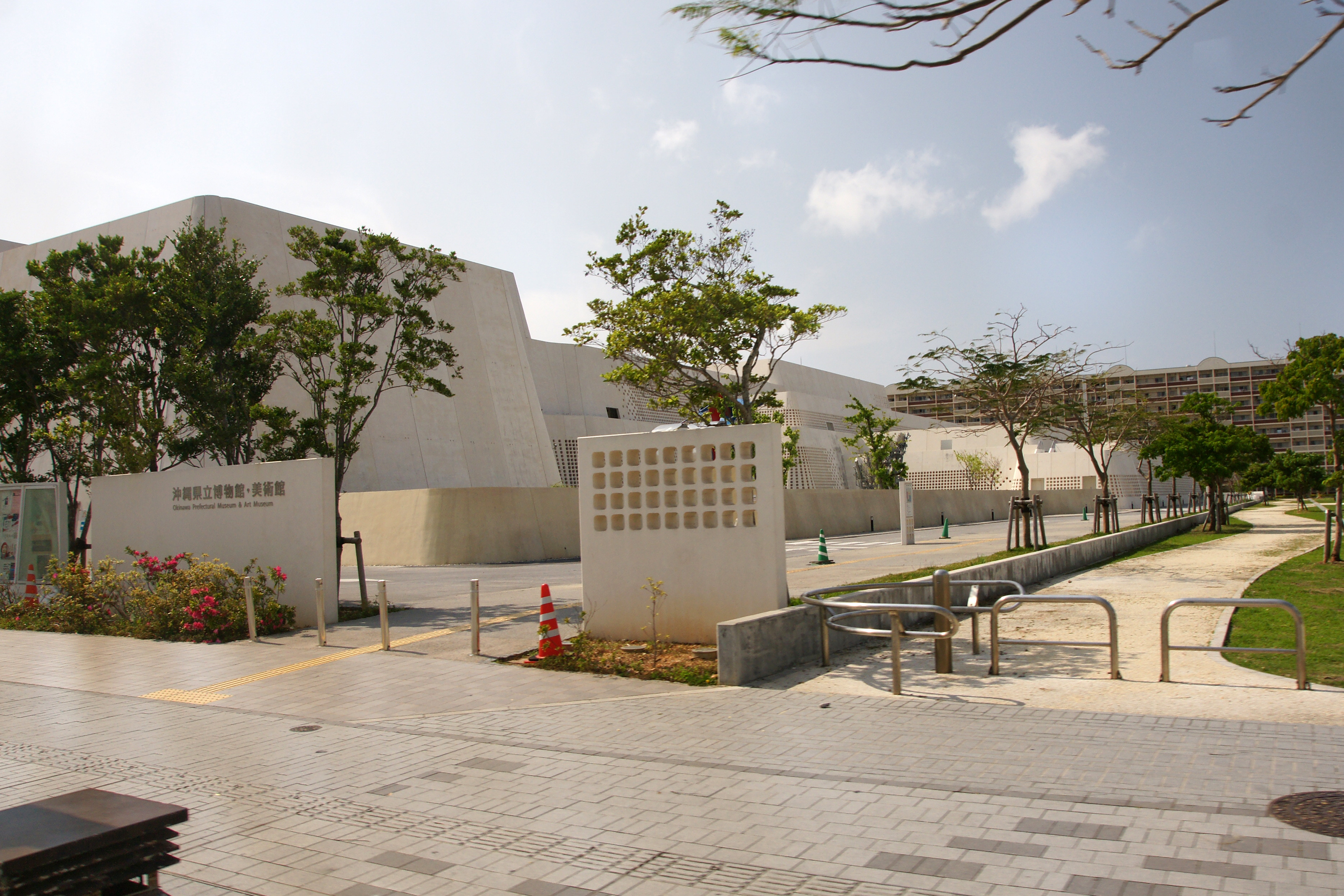 Okinawa Prefectural Museum & Art Museum, Naha, Okinawa prefecture, Japan